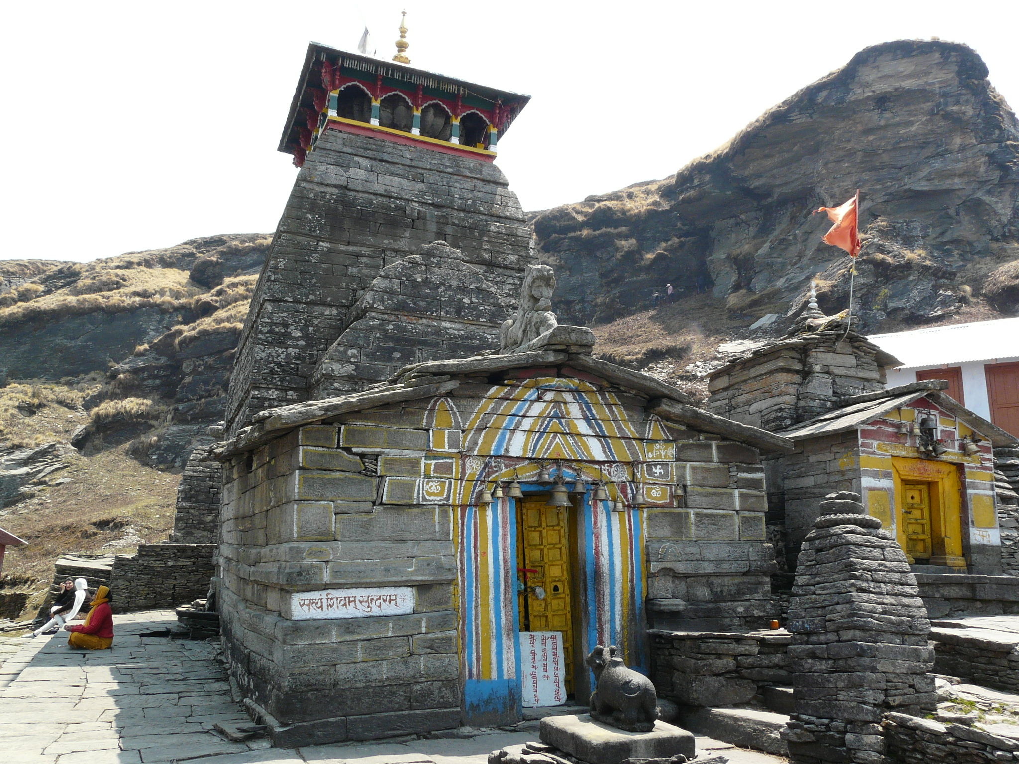 Tunganath temple in Uttarakhand- one of the Panch Kedar Shrines